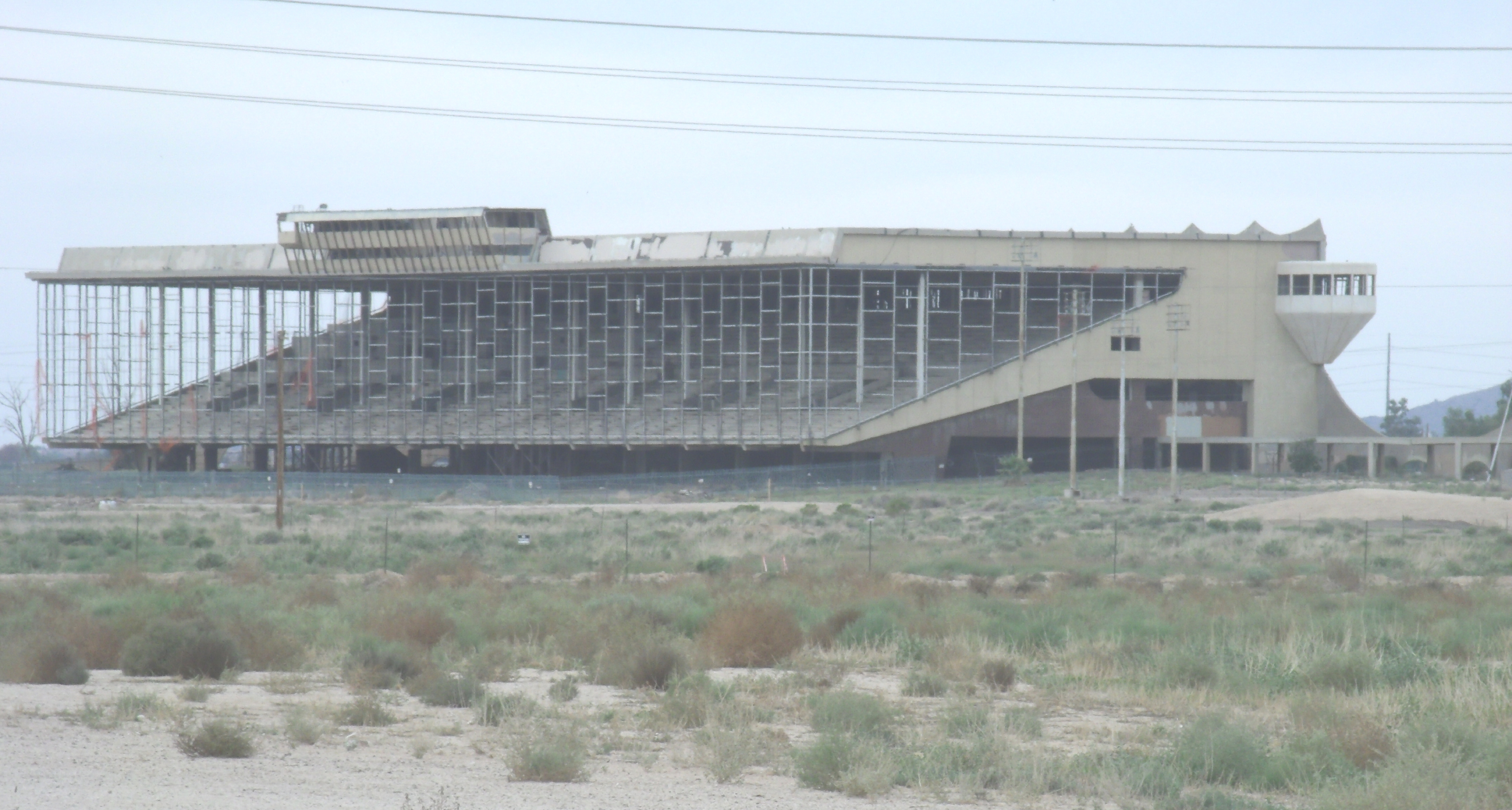 The Phoenix Trotting Park was built in 1965 and located at 1068 N Cotton Lane in Goodyear, Arizona. The harness racing facility closed in December 1966. At about 20 miles from downtown Phoenix, the park's remote location was a major factor in the low rates of attendance.